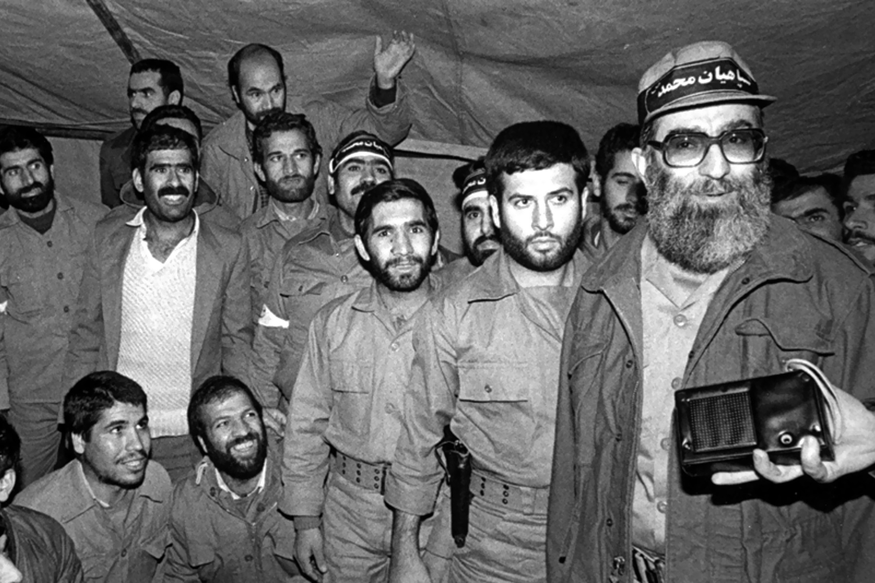 Ali Khamenei in military uniform during Iran-Iraq war